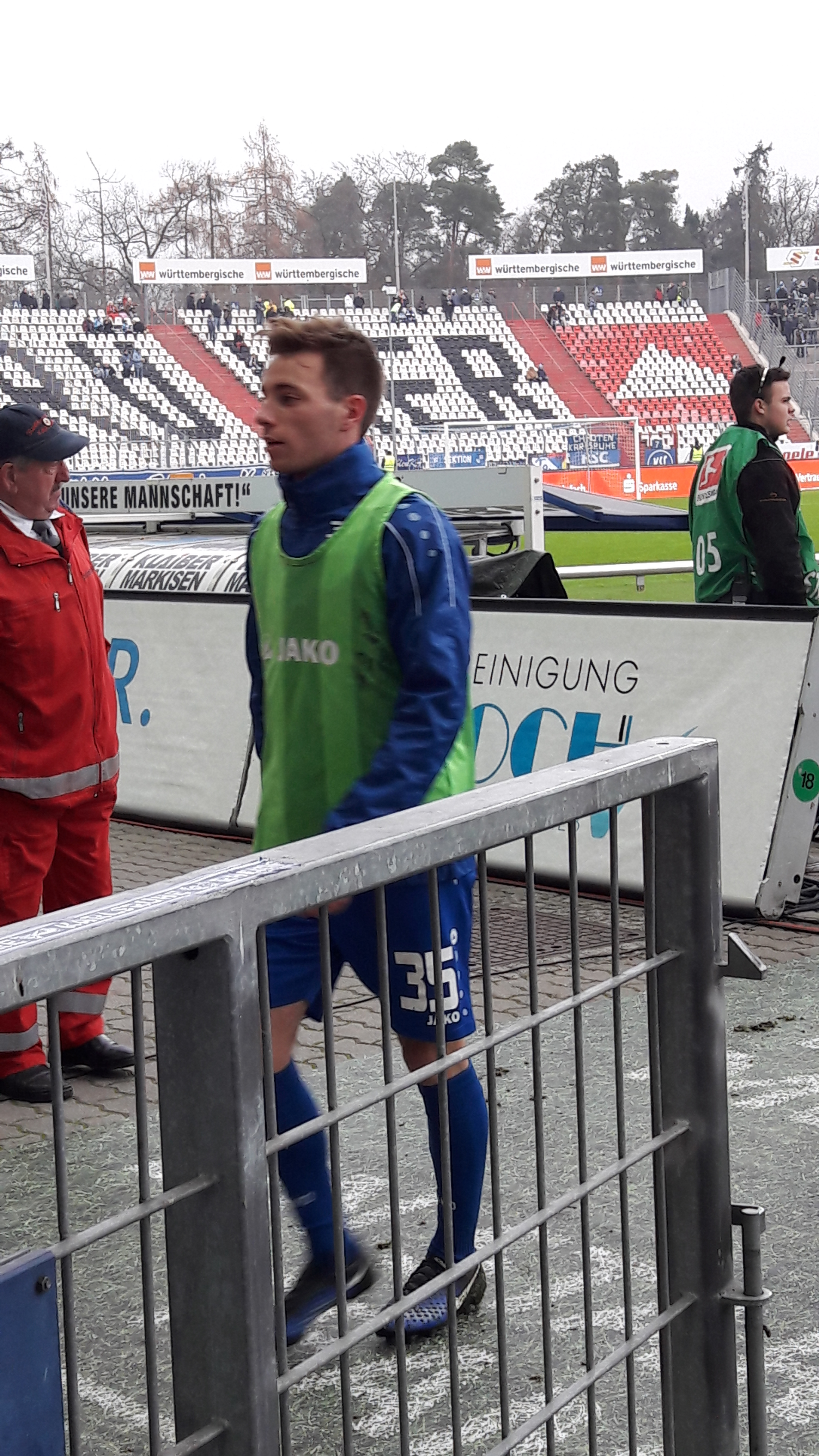 Footballplayer Matthias Bader before the match KSC - Eintracht Braunschweig at December, the 17th 2016